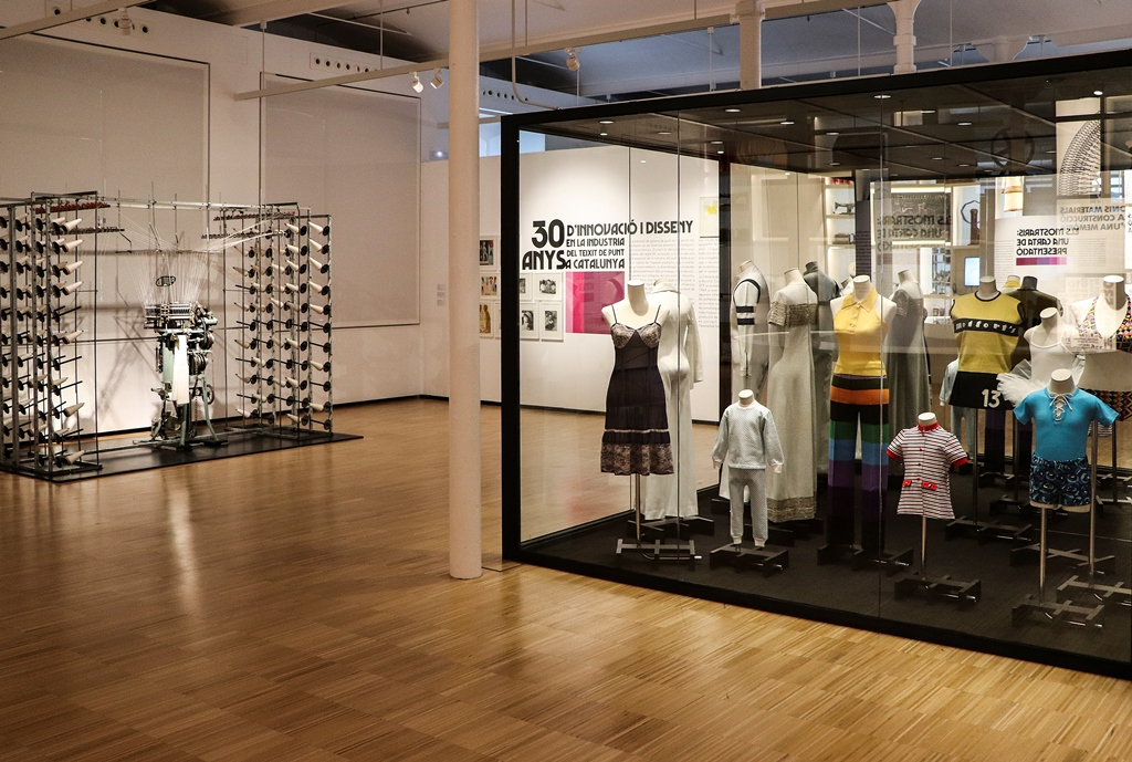 Mataro, Museu Genere De Punt:: Segona planta